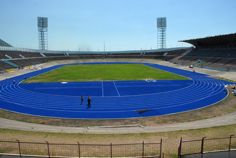 Independence Park, Kingston (Jamaica) with new blue racing track